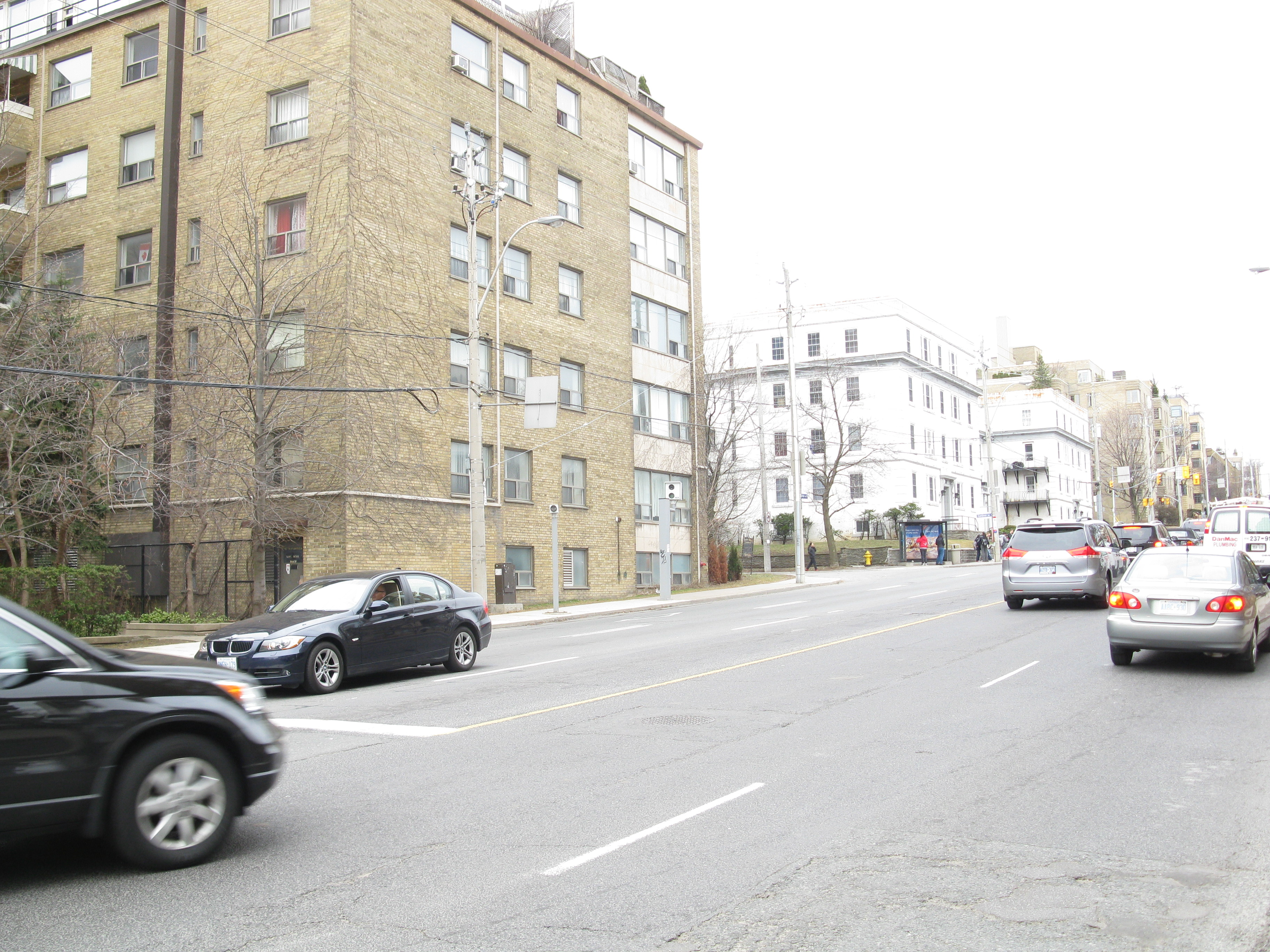 Spadina and Eglinton. This image was stitched into File:Spadina and Eglinton, 2013 04 09 -abcdefghij.jpg.